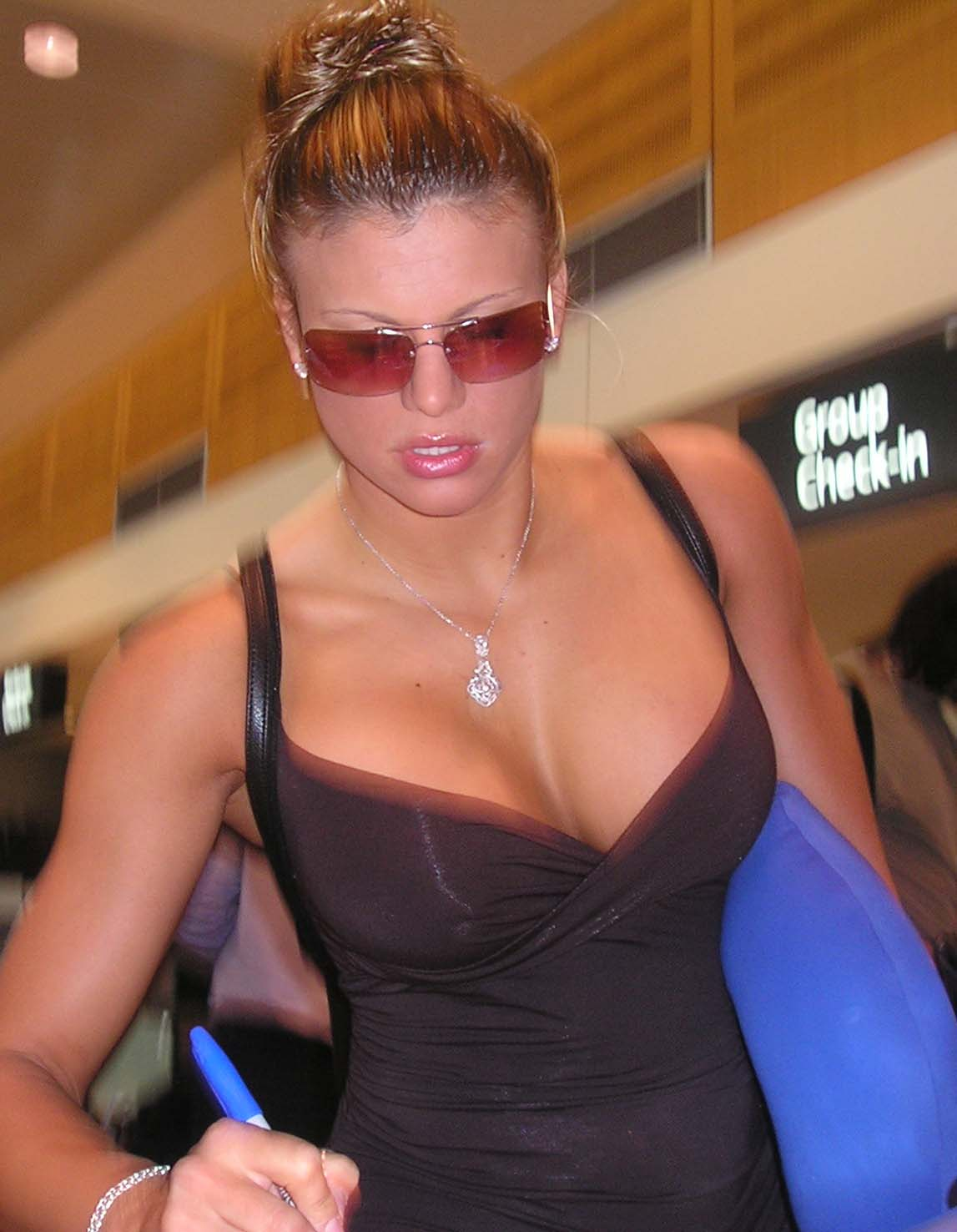 Professional wrestler Jackie Gayda